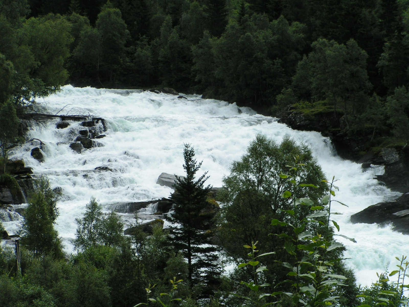 The waterfall Vallestadfossen in Gaular municipality in Sogn og Fjordane county in Norway. The river comes from the lake Haukedalsvatnet.